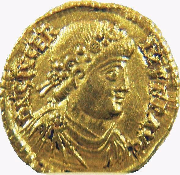 Coin of Glycerius